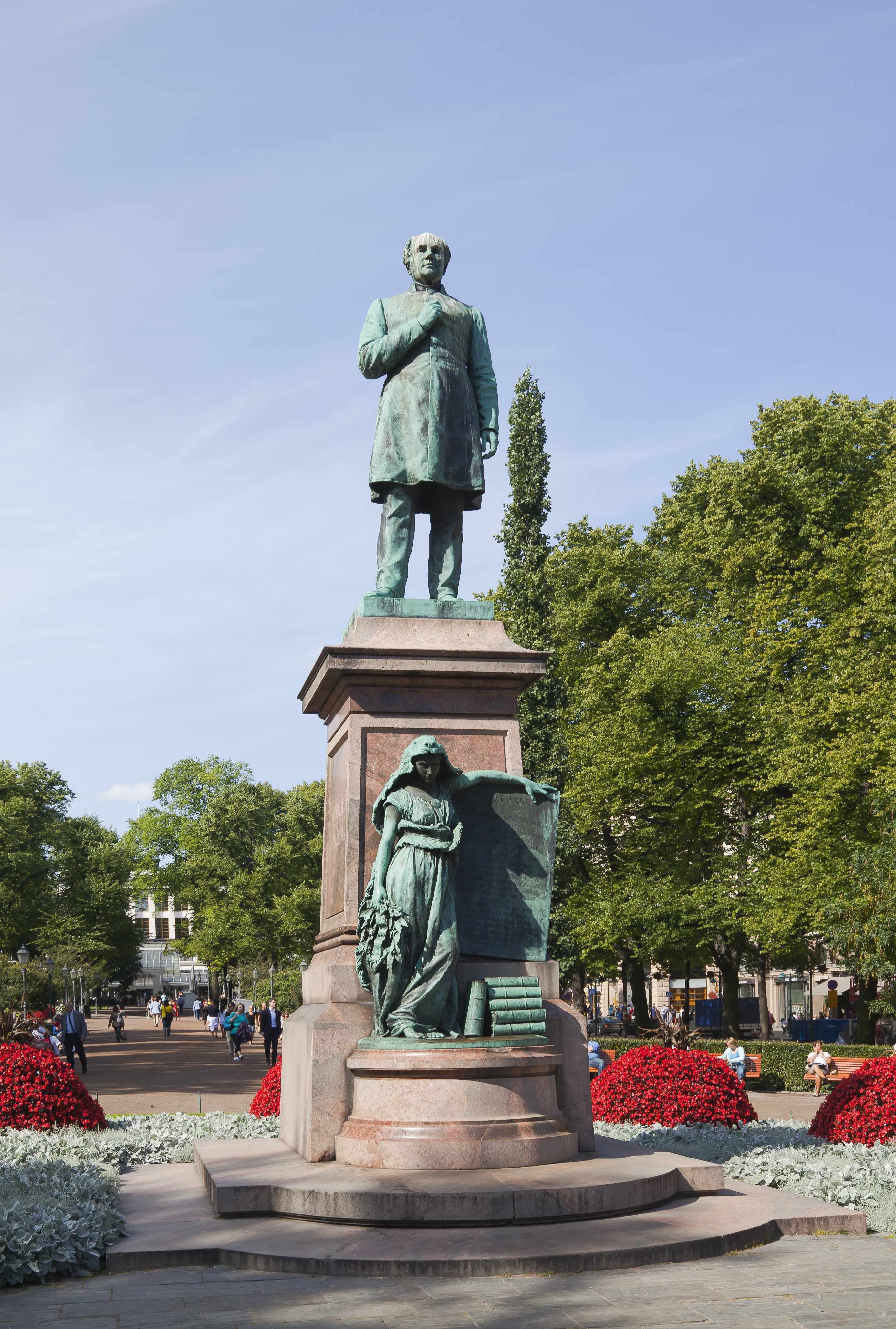 Statue of Johan Ludvig Runeberg, Helsinki, Finnland